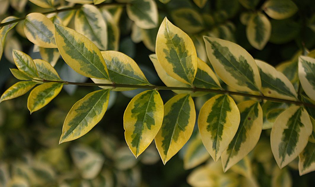 Brno-Komín,Ligustrum ovalifolium, Aureum